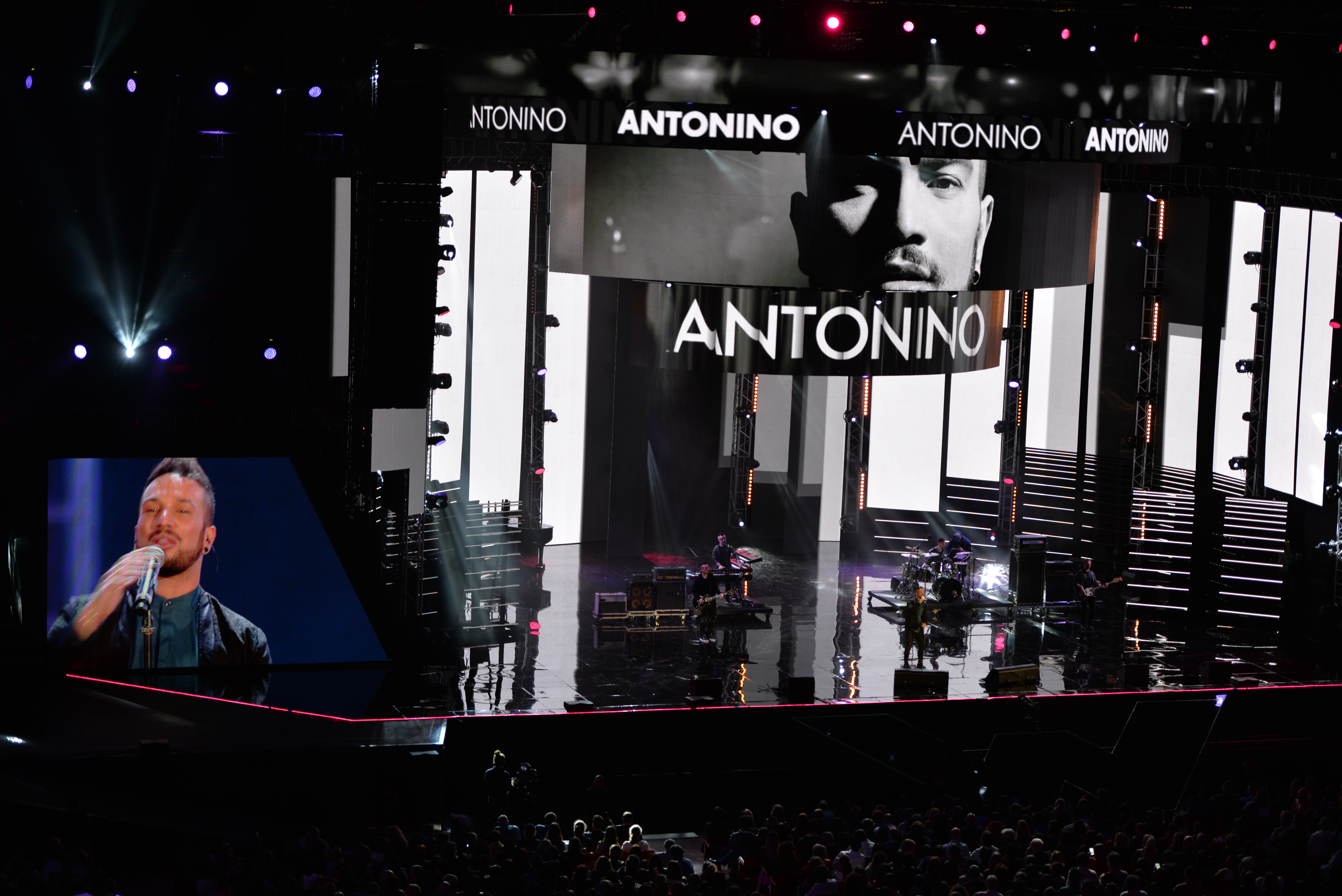 Antonino Spadaccino during the Wind Music Awards 2016 ceremony at Verona Arena